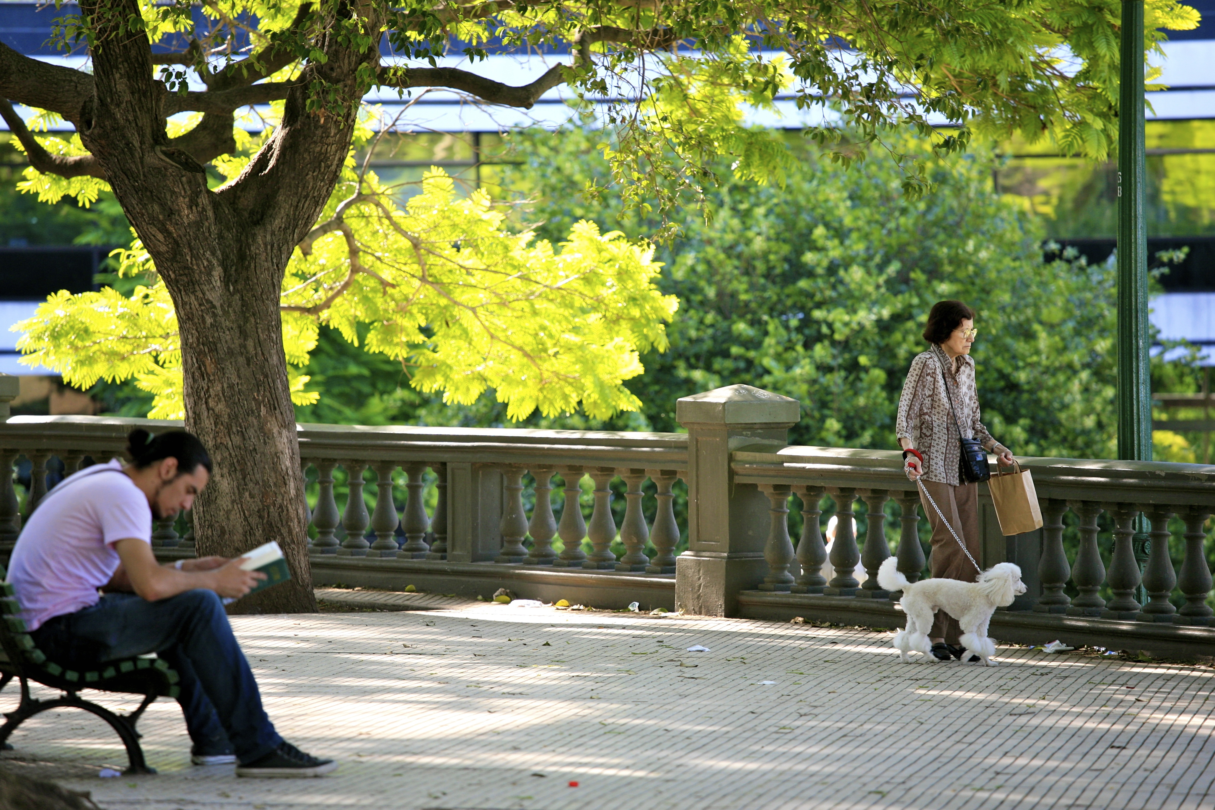 Out with the Dog